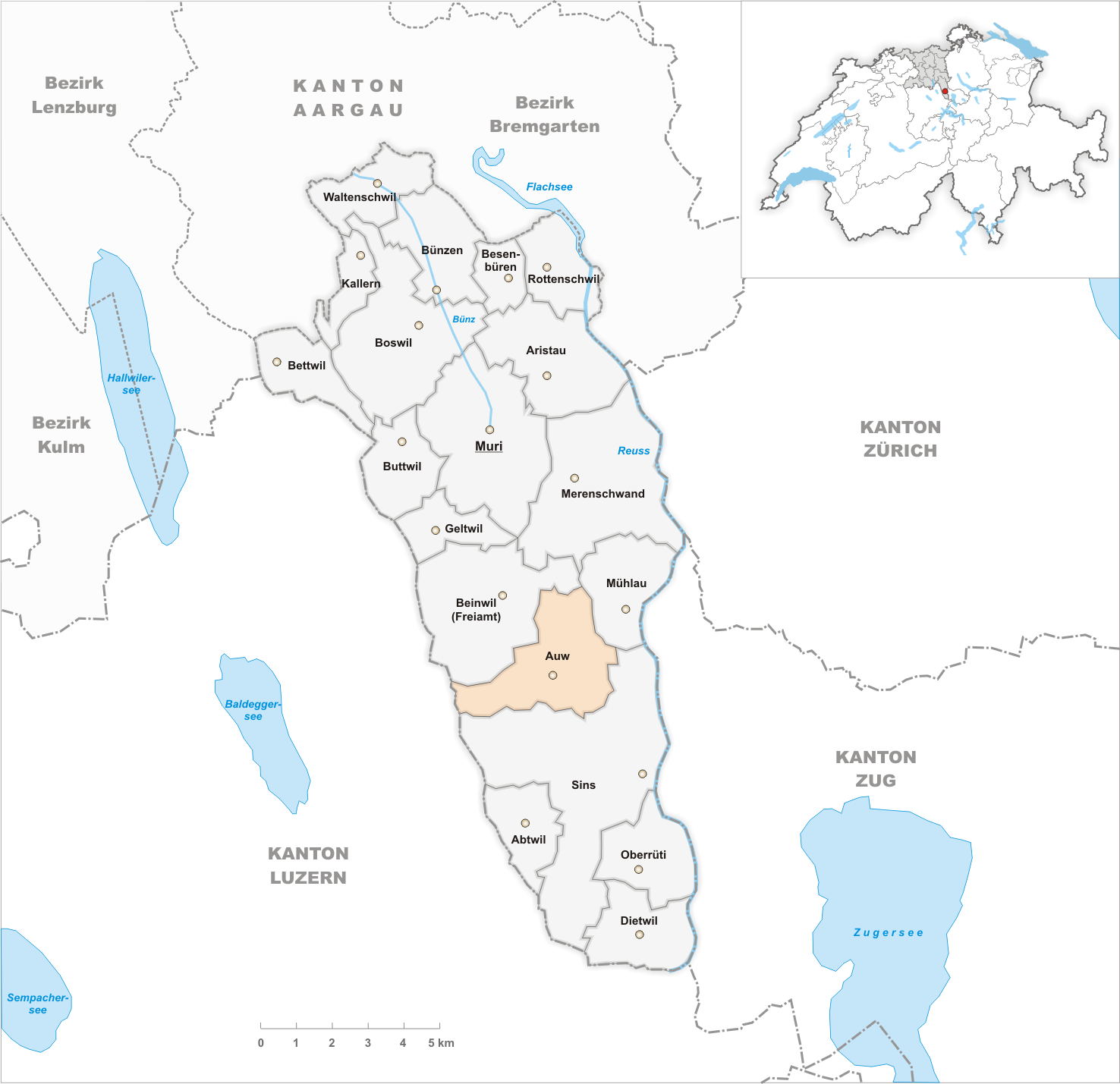 Municipality Auw